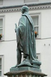 Duke of Wellington Statue, The Bulwark, Brecon. Duke of Wellington Statue, The Bulwark, in Brecon town.